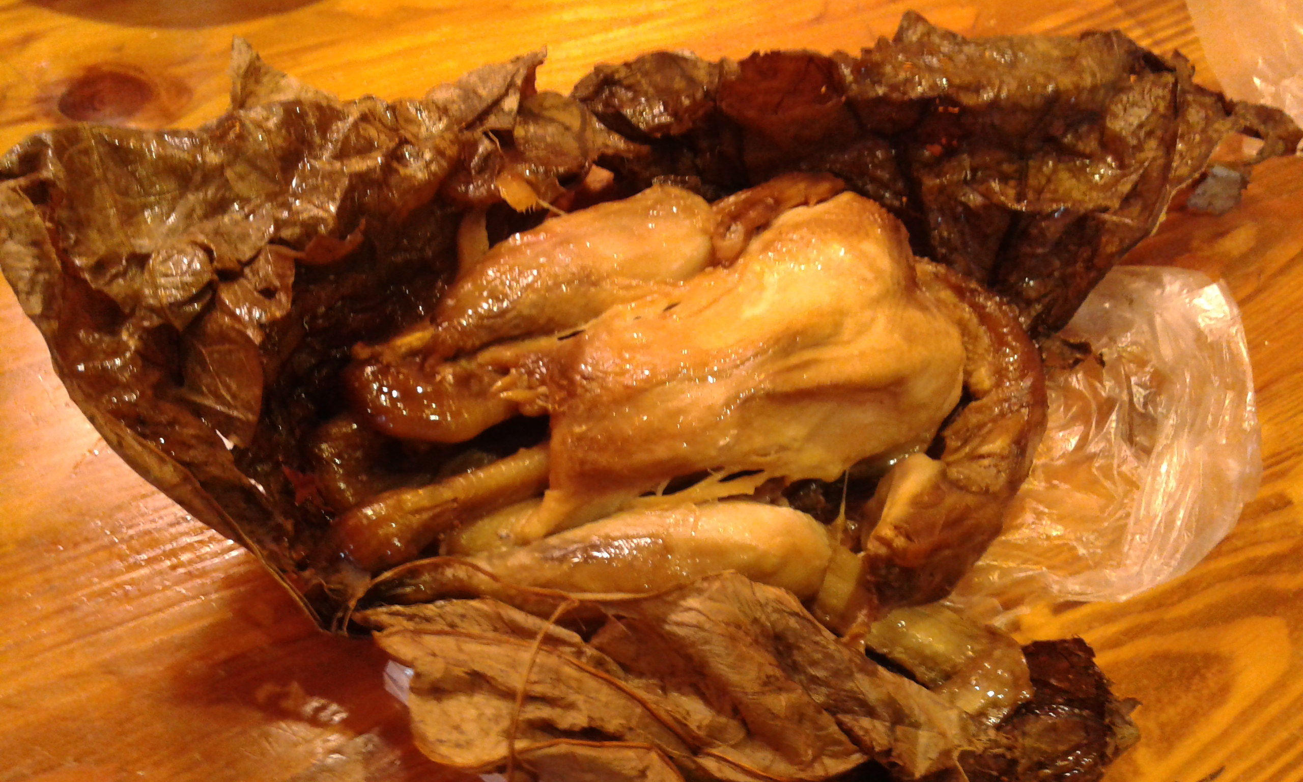 This photo has been taken in the country: China